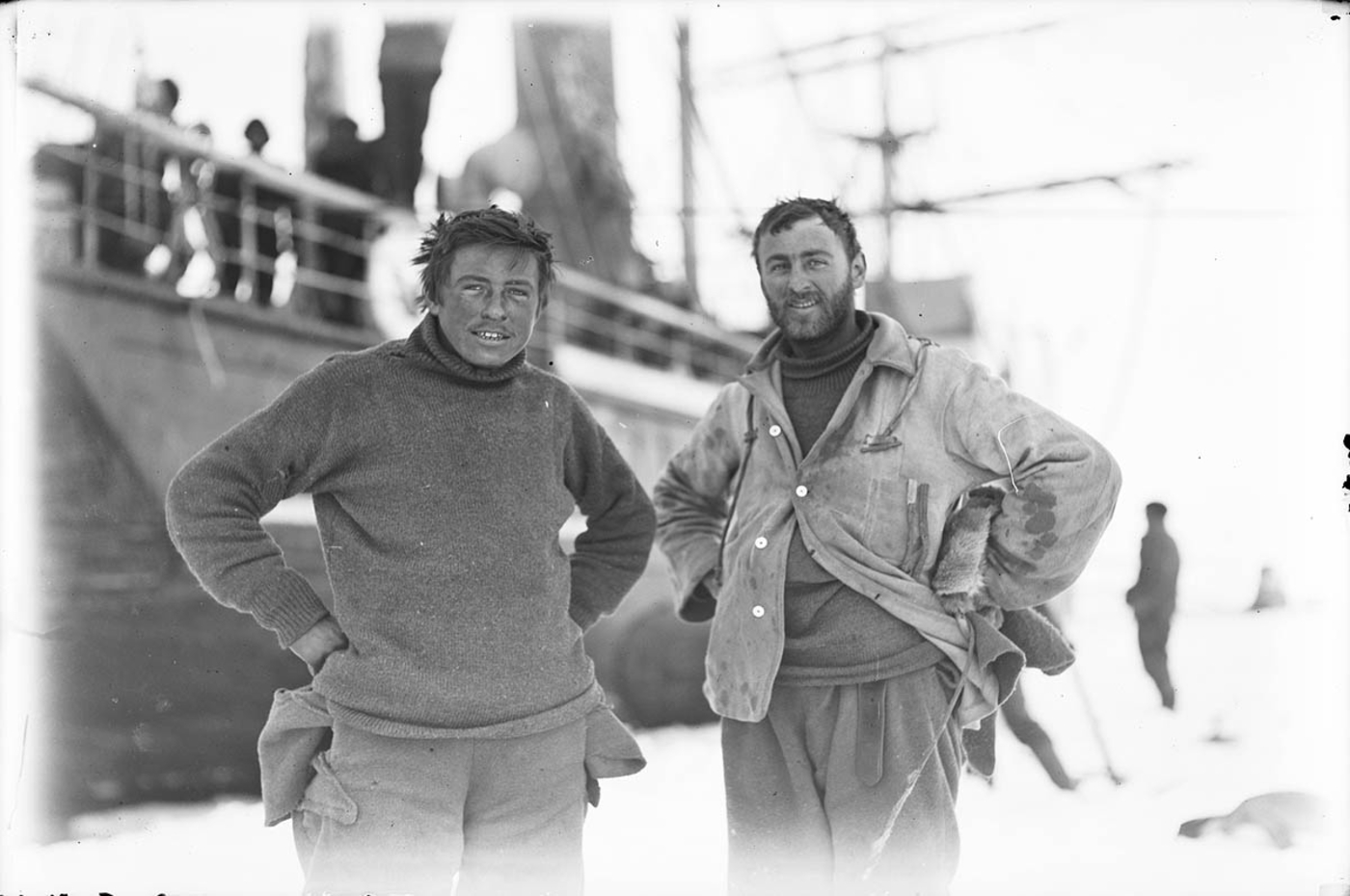 Photograph of two men, Percy Correll and Charles Laseron, taken by Frank Hurley. Correll and Laseron were members of the Australasian Antarctic Expedition led by Sir Douglas Mawson (1911-1914). This photograph was taken on floe ice at the Western Base. The SY Aurora, a steam yacht bought by Mawson to transport the expedition from Hobart to Antarctica, is in the background.